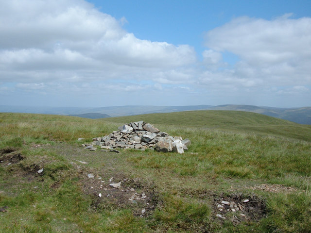 Calders, 674 metres. The summit cairn at the second highest point in the Howgill Fells. Less than a mile south of the highest point, The Calf, at 676 metres.